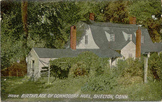 Postcard: Birthplace of Commodore Isaac Hull in Shelton, Connecticut, 1908 postmark Caption: "BIRTHPLACE OF COMMODORE HULL, SHELTON, CONN." Description: store Web page states, "1908 postally used postcard pub by Souvenir Post Card Co., No. 11066"